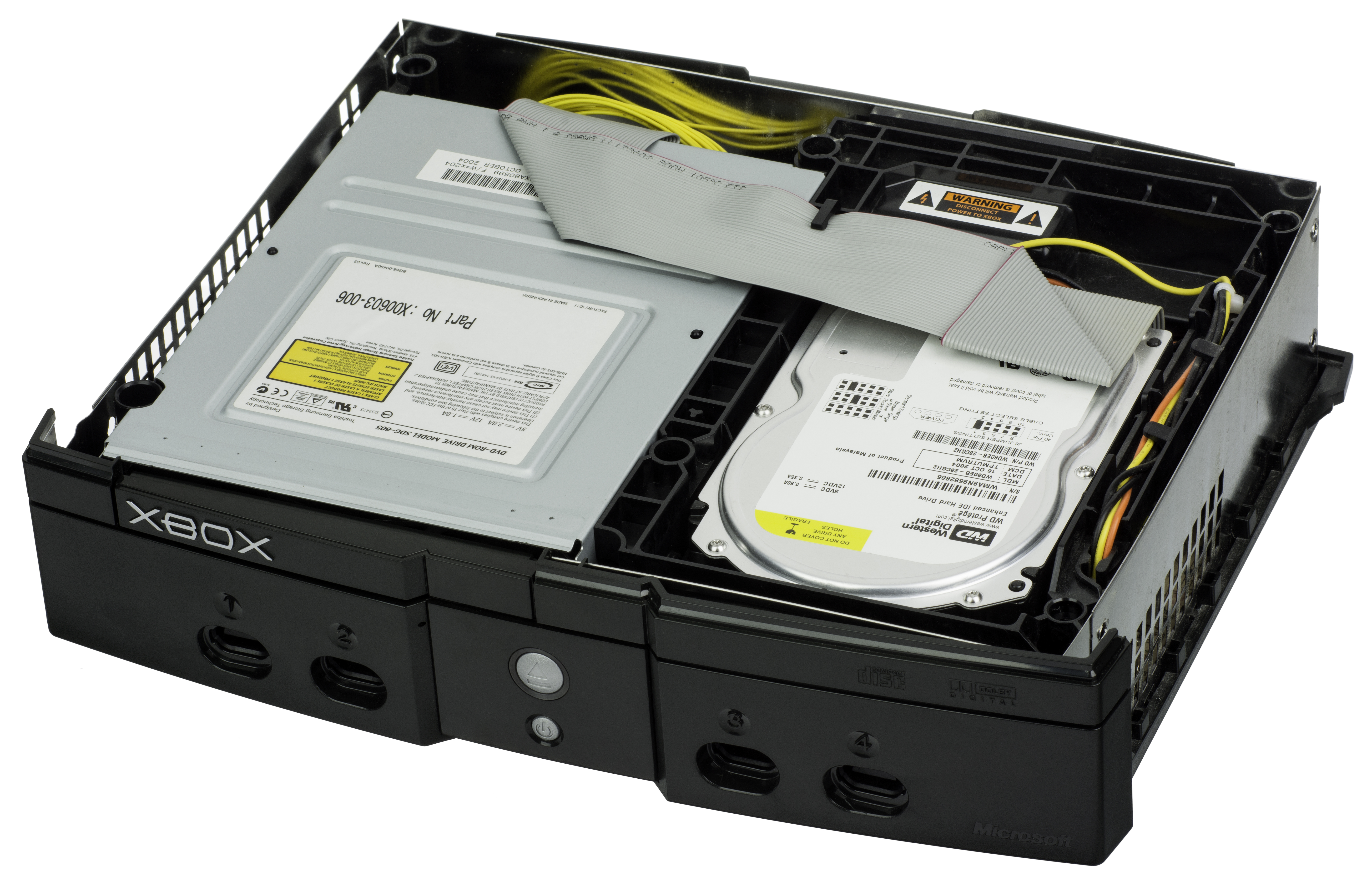 The inside of an Xbox, a sixth-generation gaming console made by Microsoft that was first released in 2001. The Xbox was Microsoft's first foray into the gaming console market, and was followed by the Xbox 360 in 2005. This picture shows the inside of console with the DVD and hard drives not removed. The console shown is the 1.6 hardware revision, which was the last version of the console hardware that featured component reduction and streamlining. Manufacture date of the console is 2004-11-18, making this one of the last Xbox consoles made.